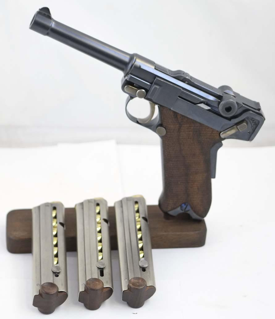 Pictured is a Luger in 45 ACP, an exact functional replica of a 1907 US Army Trails Luger.